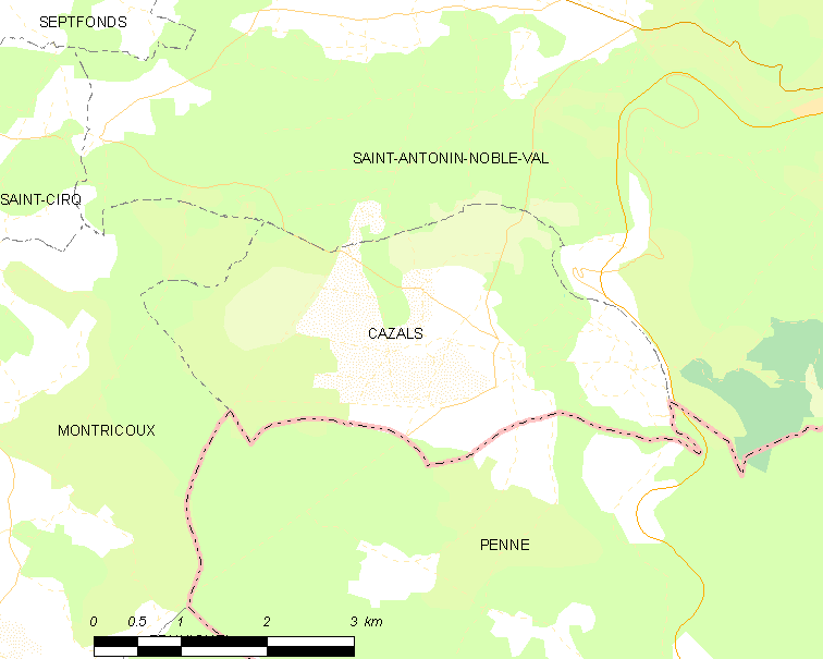 Map of French municipality Cazals